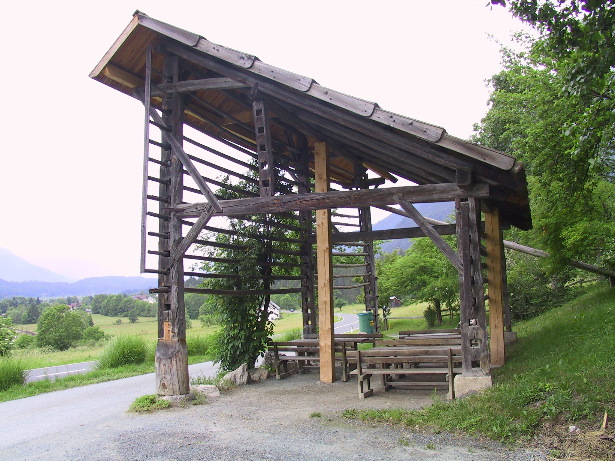 Harpfe as resting place